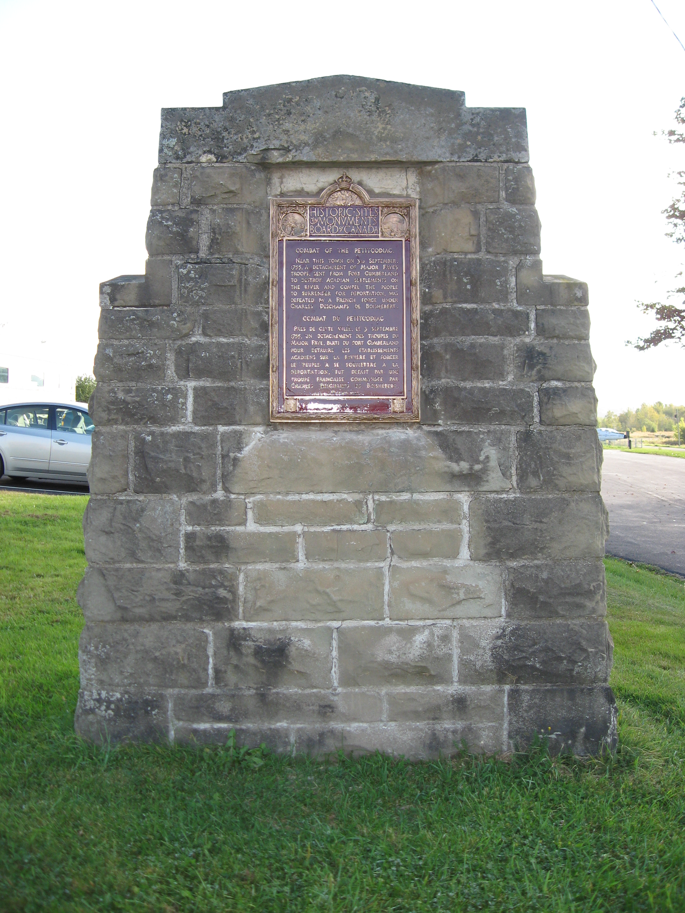 Battle of Petitcodiac Monument, Hillsborough, New Brunswick Albert County Museum